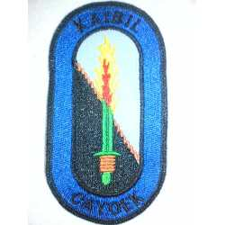 Kaibil Unit Insignia